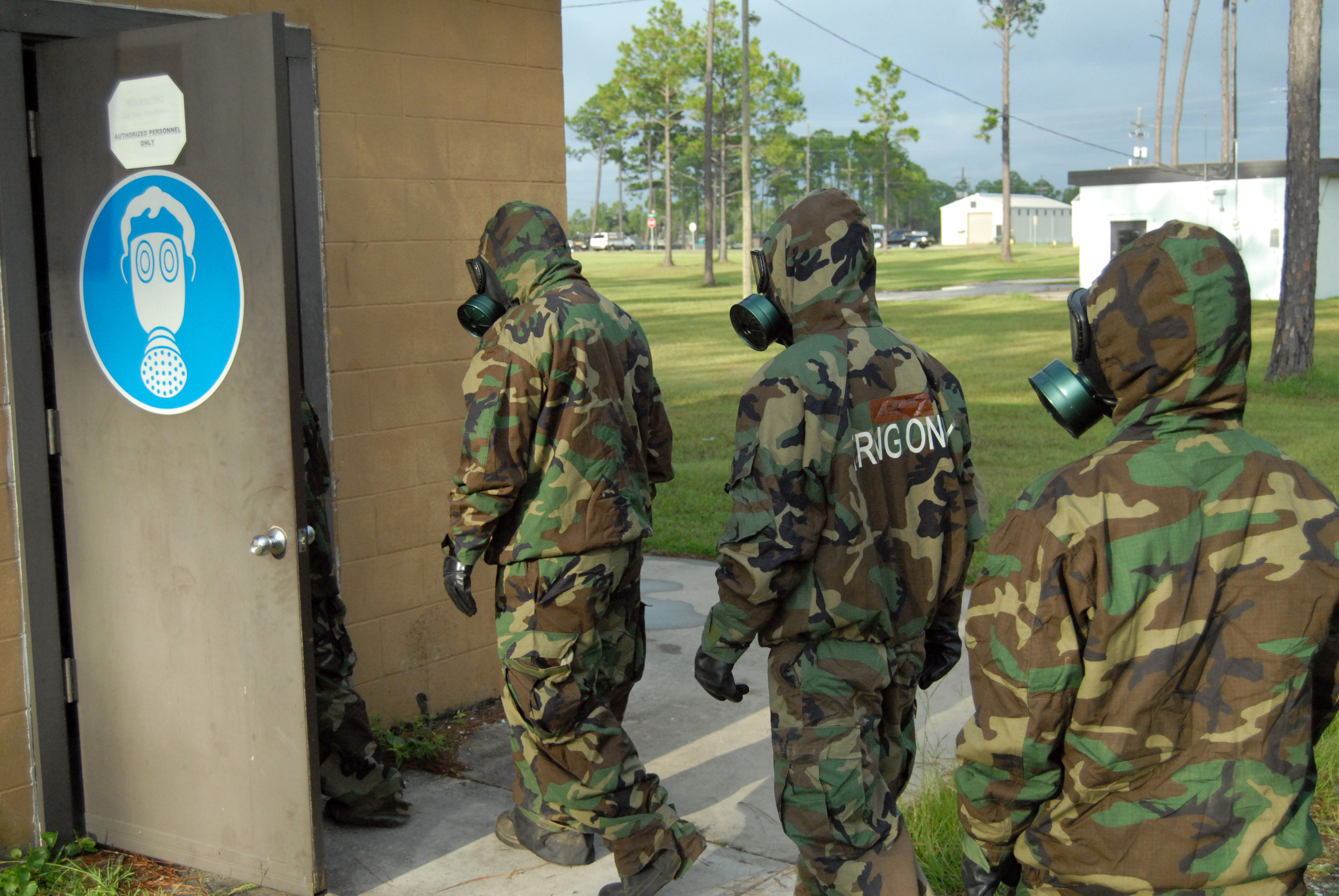 GULFPORT, Miss. (Aug. 26, 2008) Members from Naval Mobile Construction Battalion (NMCB) 11 enter the confidence chamber to obtain their chemical, biological, and radiological qualifications for their upcoming deployment to the U.S. Central Command area of responsibility. (U.S. Navy photo by Mass Communication Specialist 2nd Class Erick S. Holmes/Released)